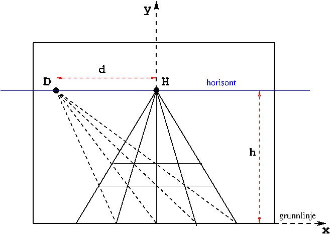 Square grid in central projection.